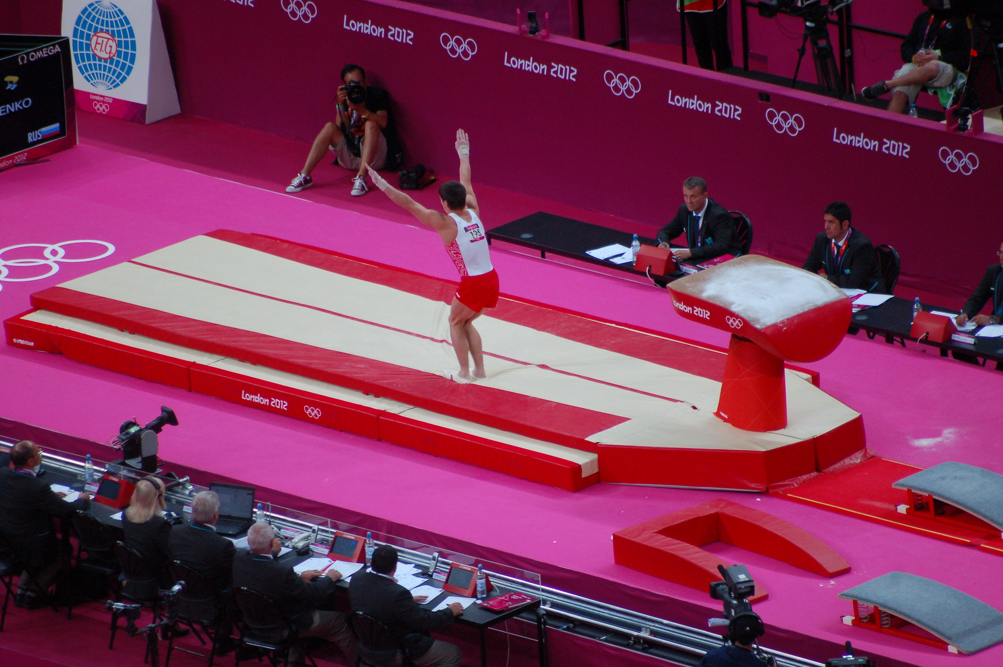 London Olympic 2012 - Artistic Gymnastics Mens' Qualifiers - o2